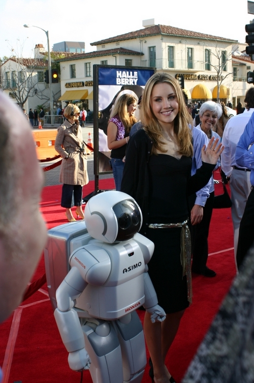 Amanda Bynes with Asimo on the red carpet at the movie premier for Robots 1 March 2005.